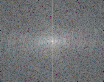 160_by_160_thumbnail_of_'Green_Sea_Shell' - 0 in fourier domain. In RGB channels in fourierdomain, logarithmic. Zero frequency in the center. matlab Code: aa(:,:,1)=(fftshift(log(abs(fft2(x160(:,:,1)))))) aa(:,:,2)=(fftshift(log(abs(fft2(x160(:,:,2)))))) aa(:,:,3)=(fftshift(log(abs(fft2(x160(:,:,3)))))) aa=aa-min(min(aa(:))) aa=aa./(max(aa(:))); figure; imagesc(aa) export_fig 'shell14.png' -png -a1